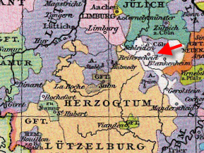 Reifferscheid around 1400